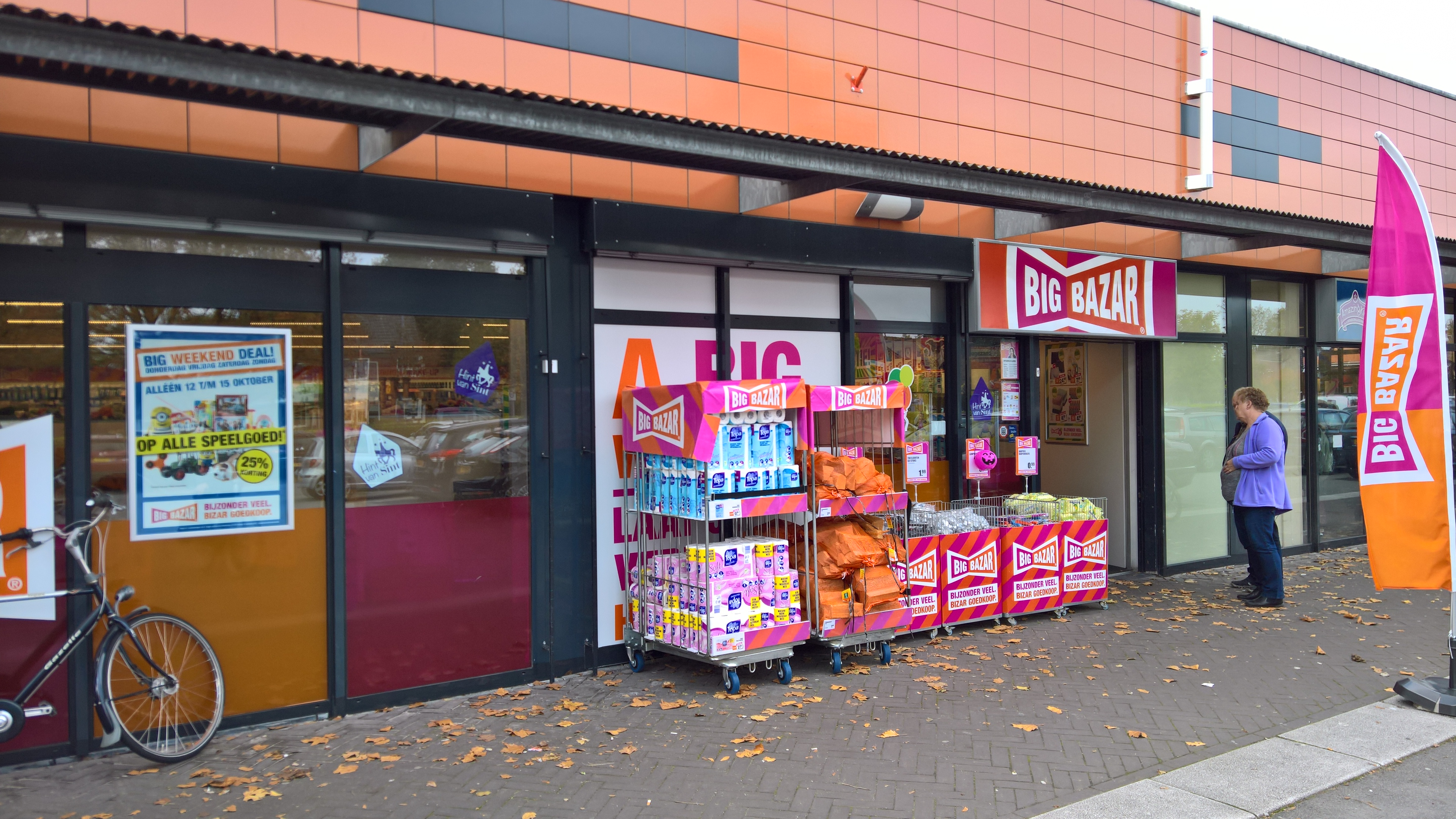 A discount shop that operates in the Netherlands and Belgium.